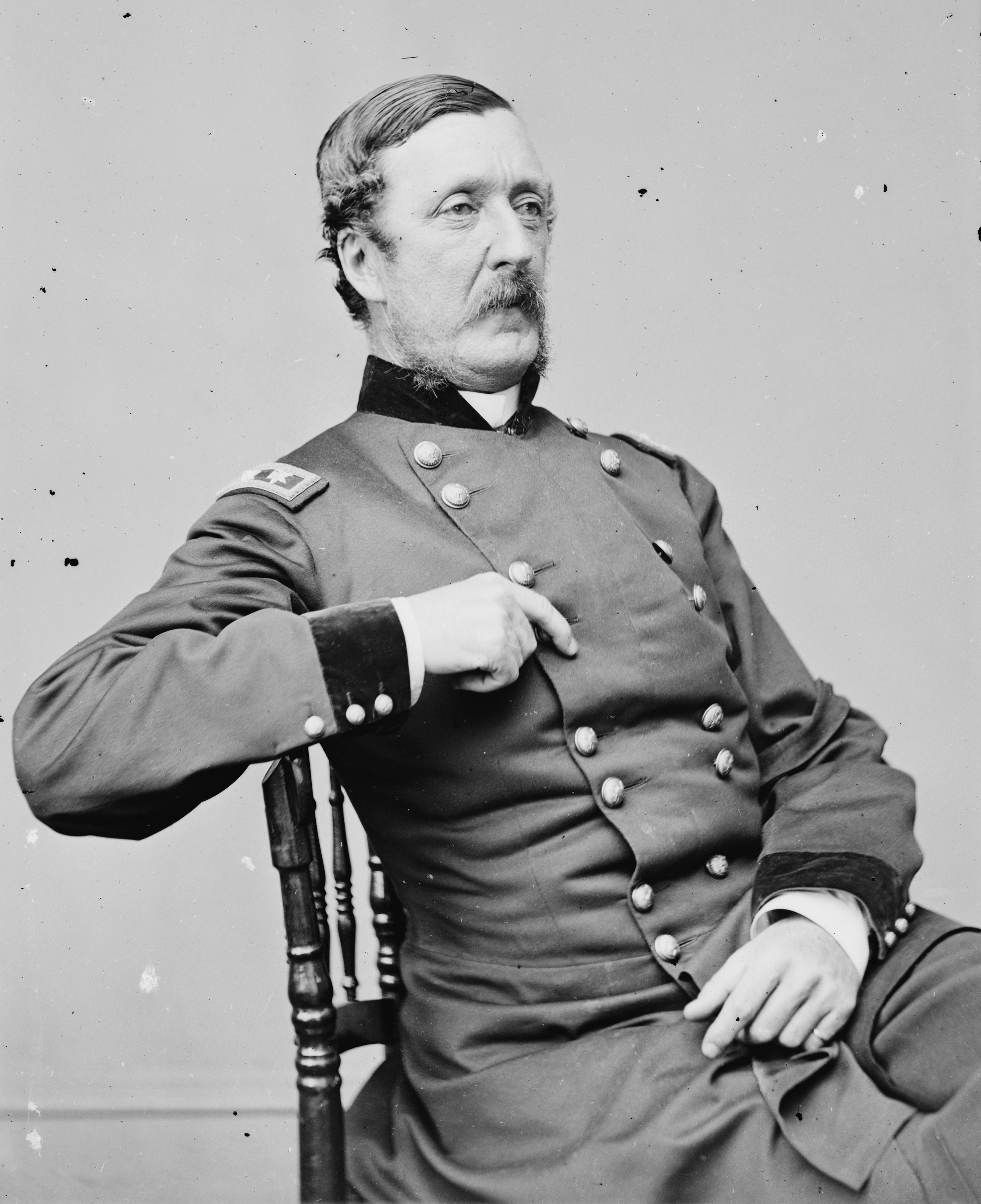 William Farquhar Barry. Library of Congress description: " Portrait of Maj. Gen. William F. Barry, officer of the Federal Army ."